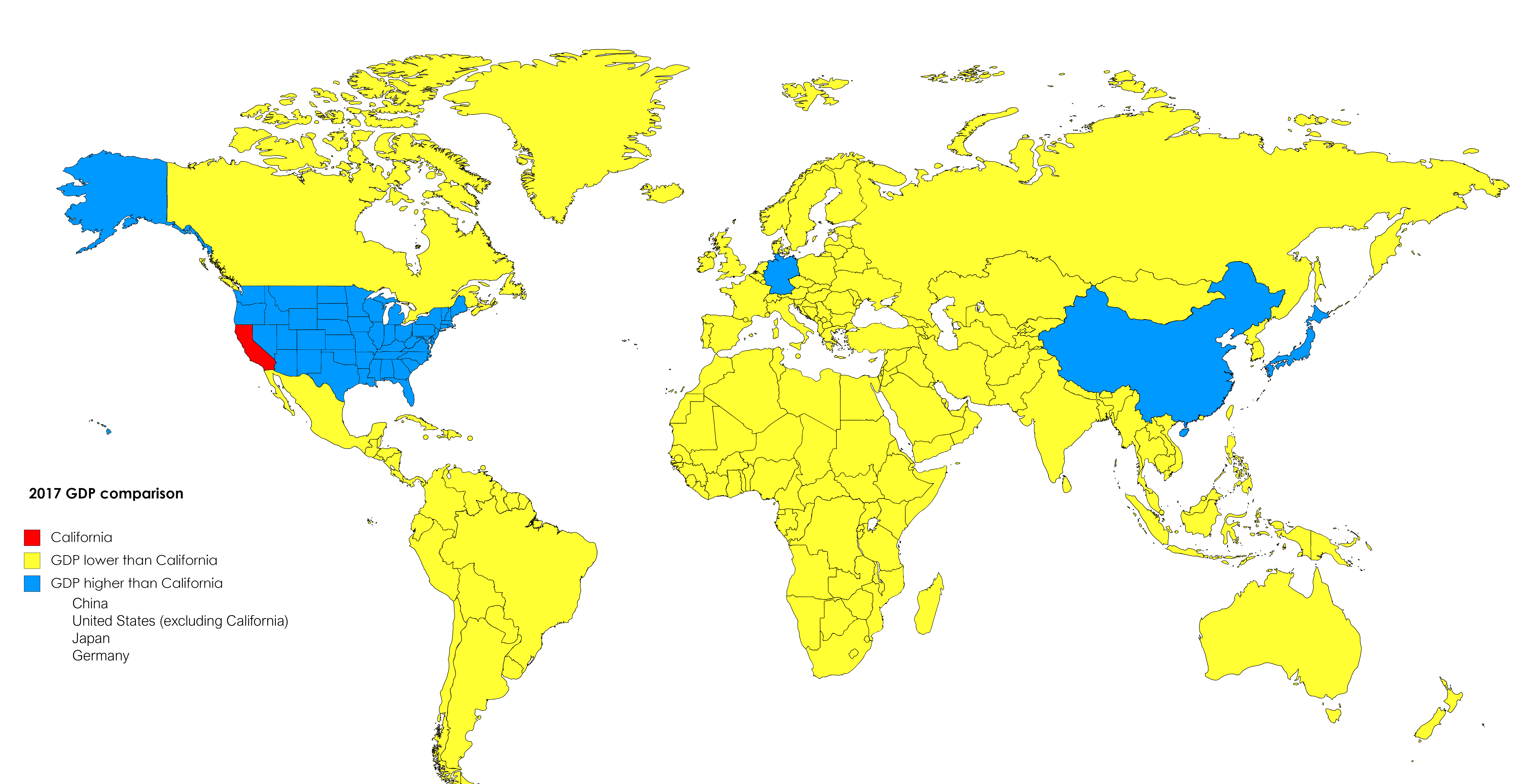 GDP map comparing California to other US states and foreign countries